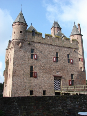 Impressions of Castle Doornenburg (Netherlands)